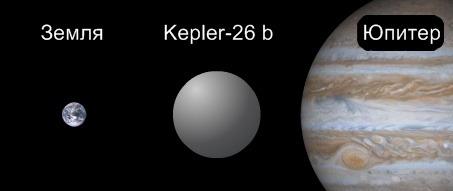 Comparative sizes of Earth, Kepler-26 b and Jupiter.